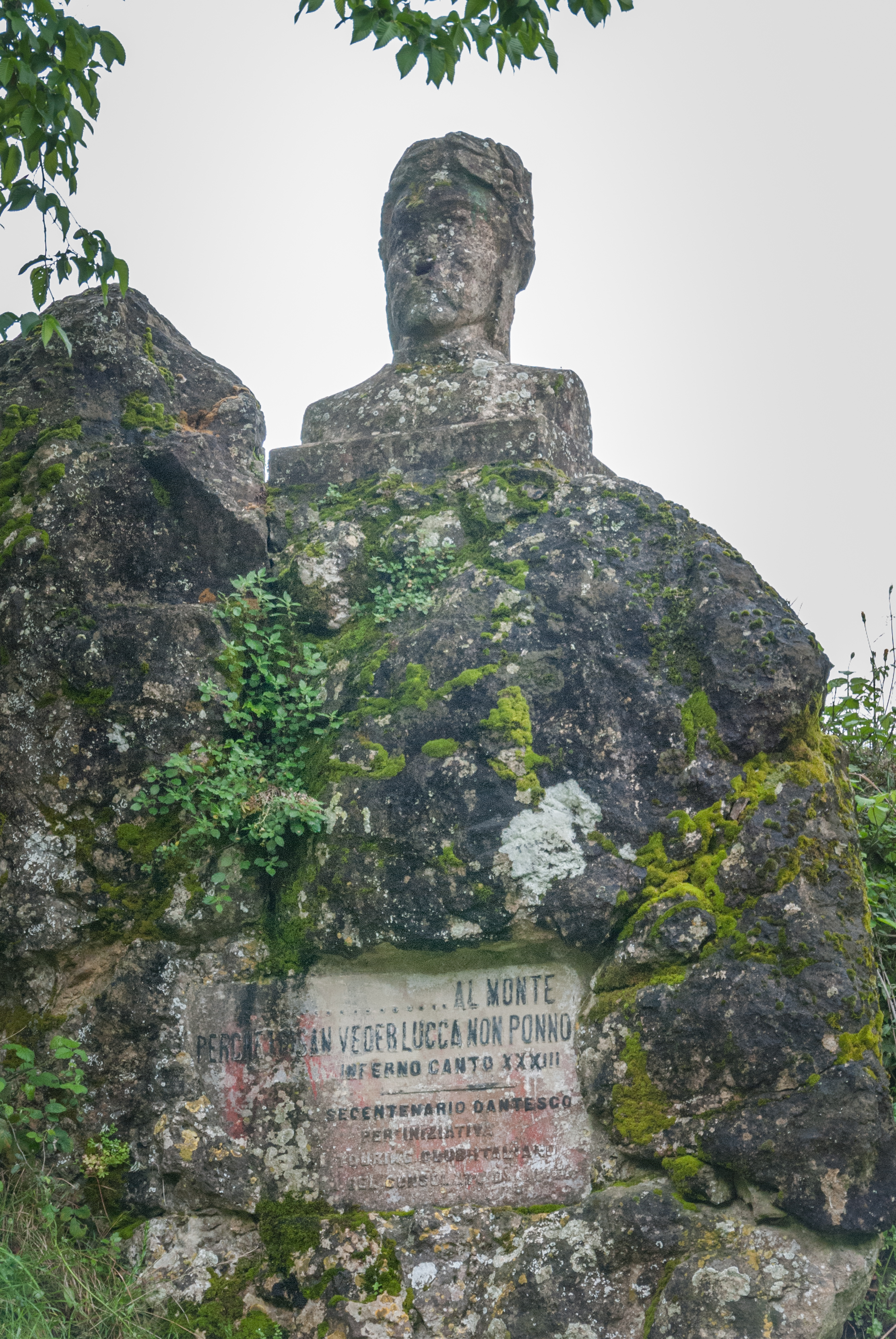 Dante Alighieri statue at the Dante Pass over the Monte Pisano between Lucca and Pisa in Tuscany, Italy